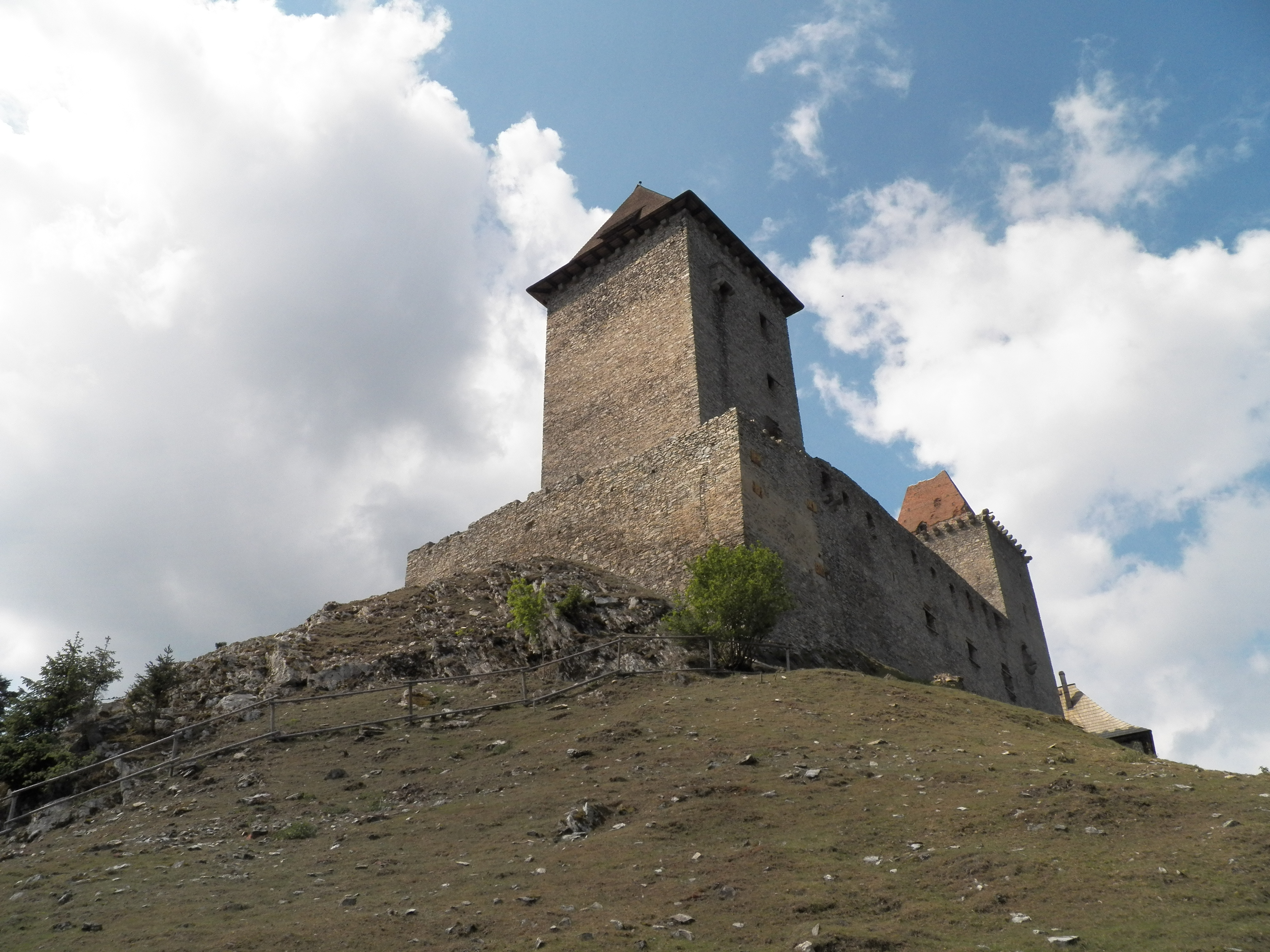 Castle Kasperk